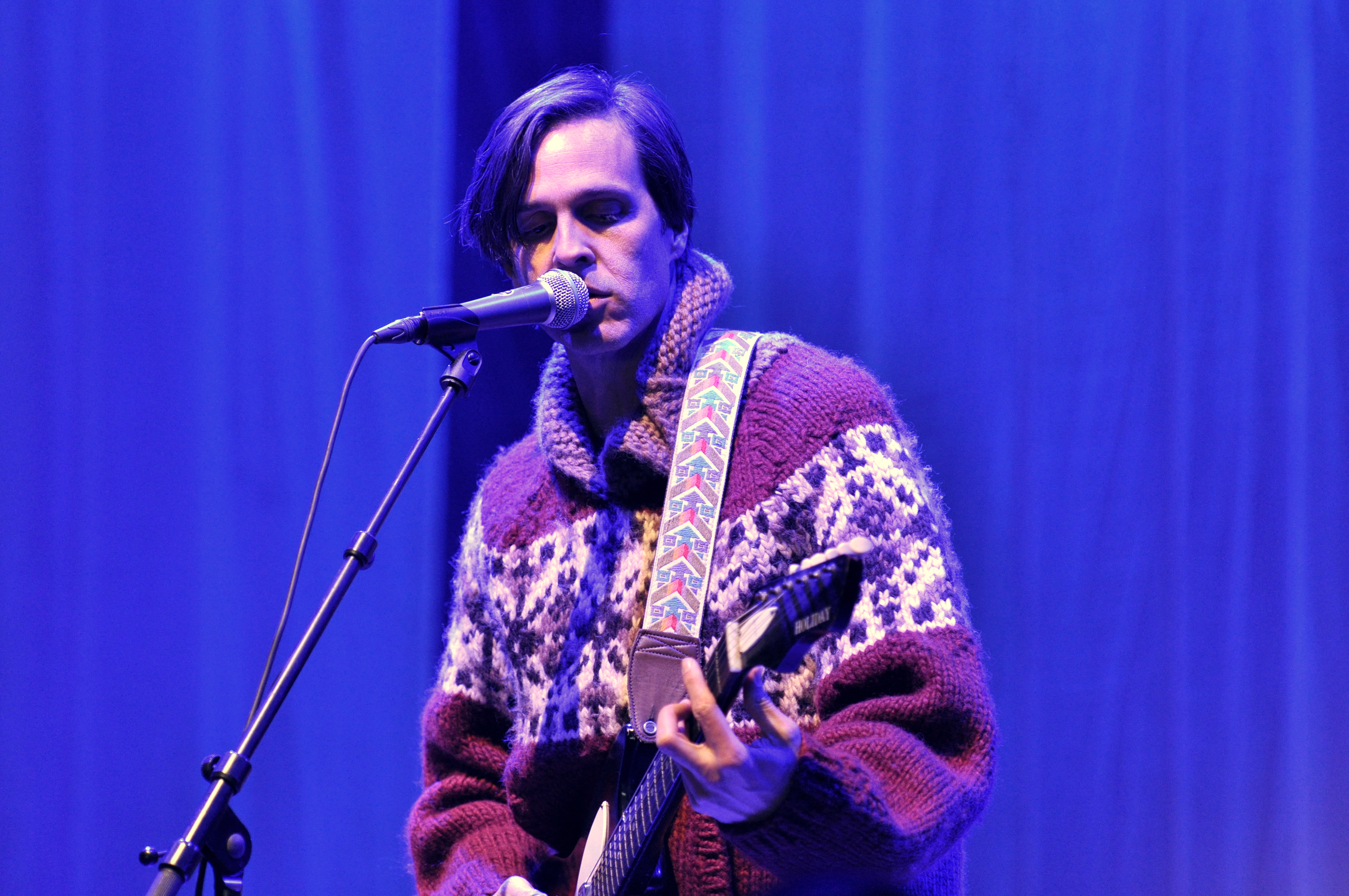 Walter Schreifels at Groezrock 2013